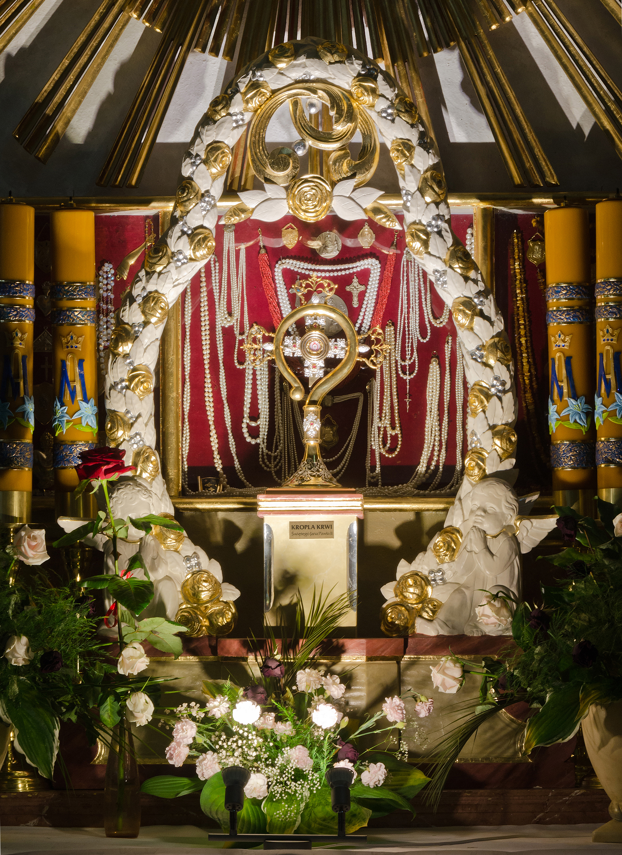 Church of the Assumption in Polanica-Zdrój, altar with blood relic of John Paul II